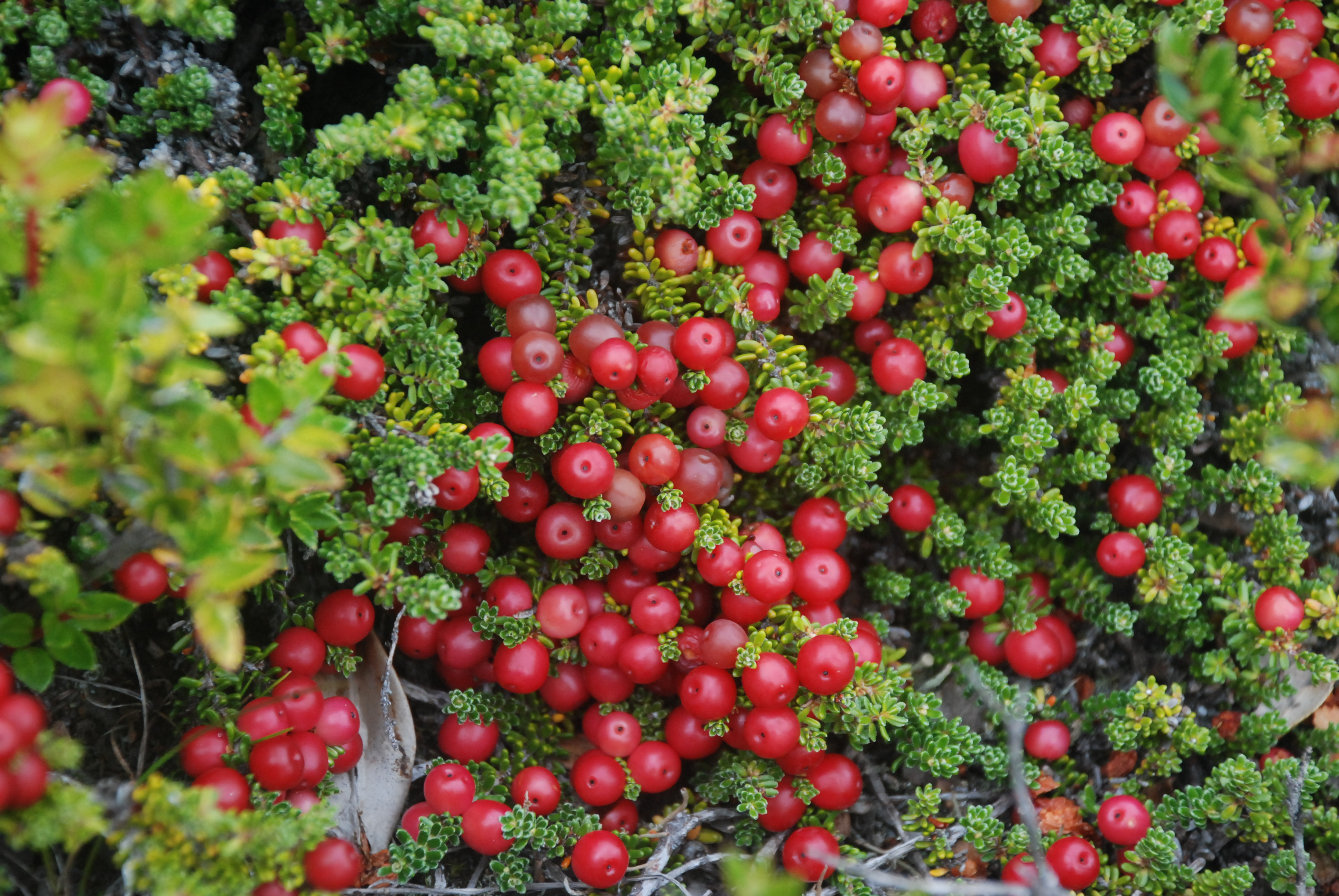 Empetrum rubrum, Torres del Paine National Park